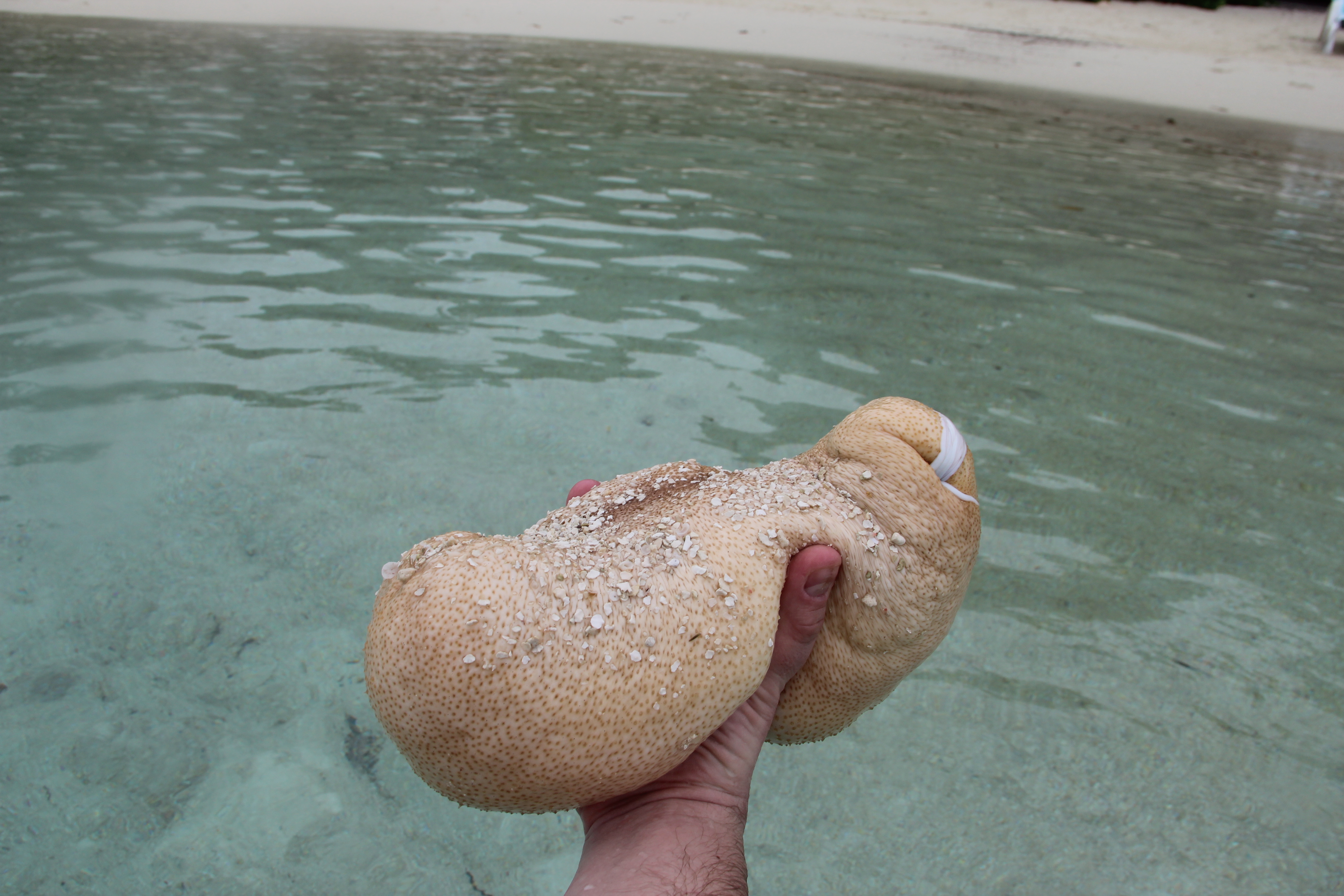 A holothuria at Velidhu atoll (Maldives), November 2011